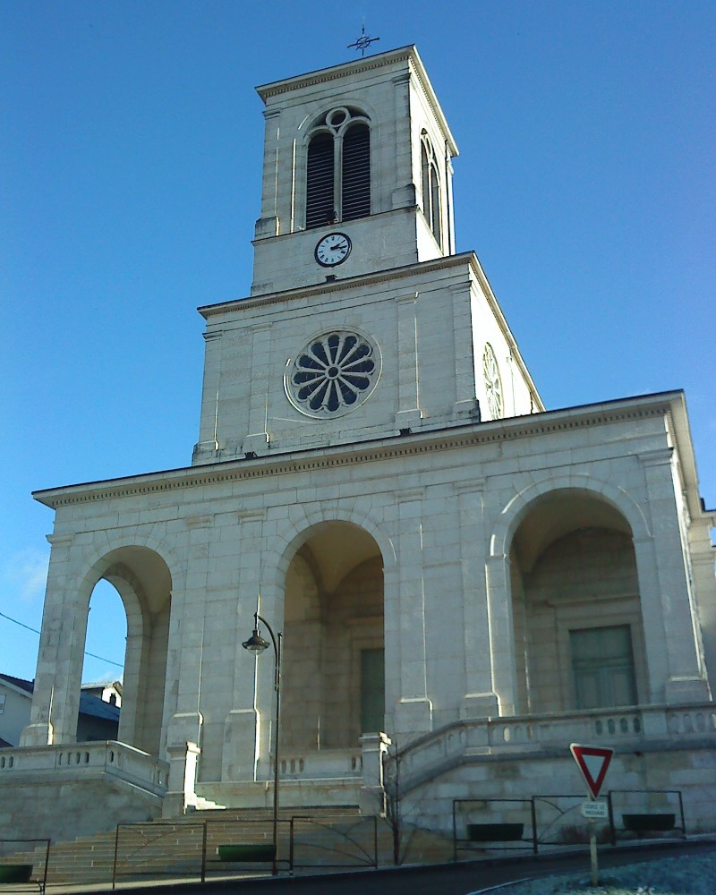 St Leger Church, Oyonnax, France